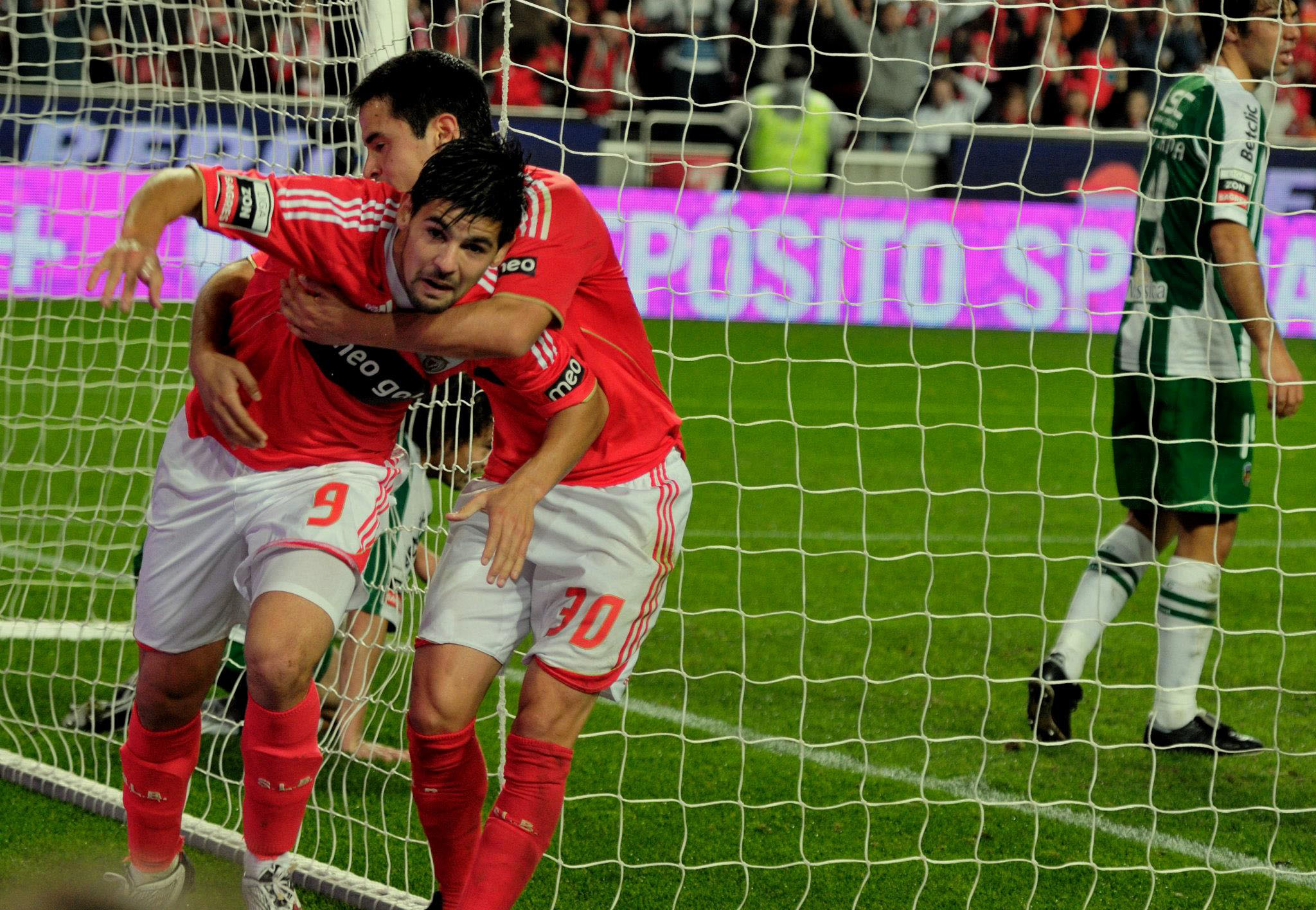 Nolito after scoring a goal against Rio Ave